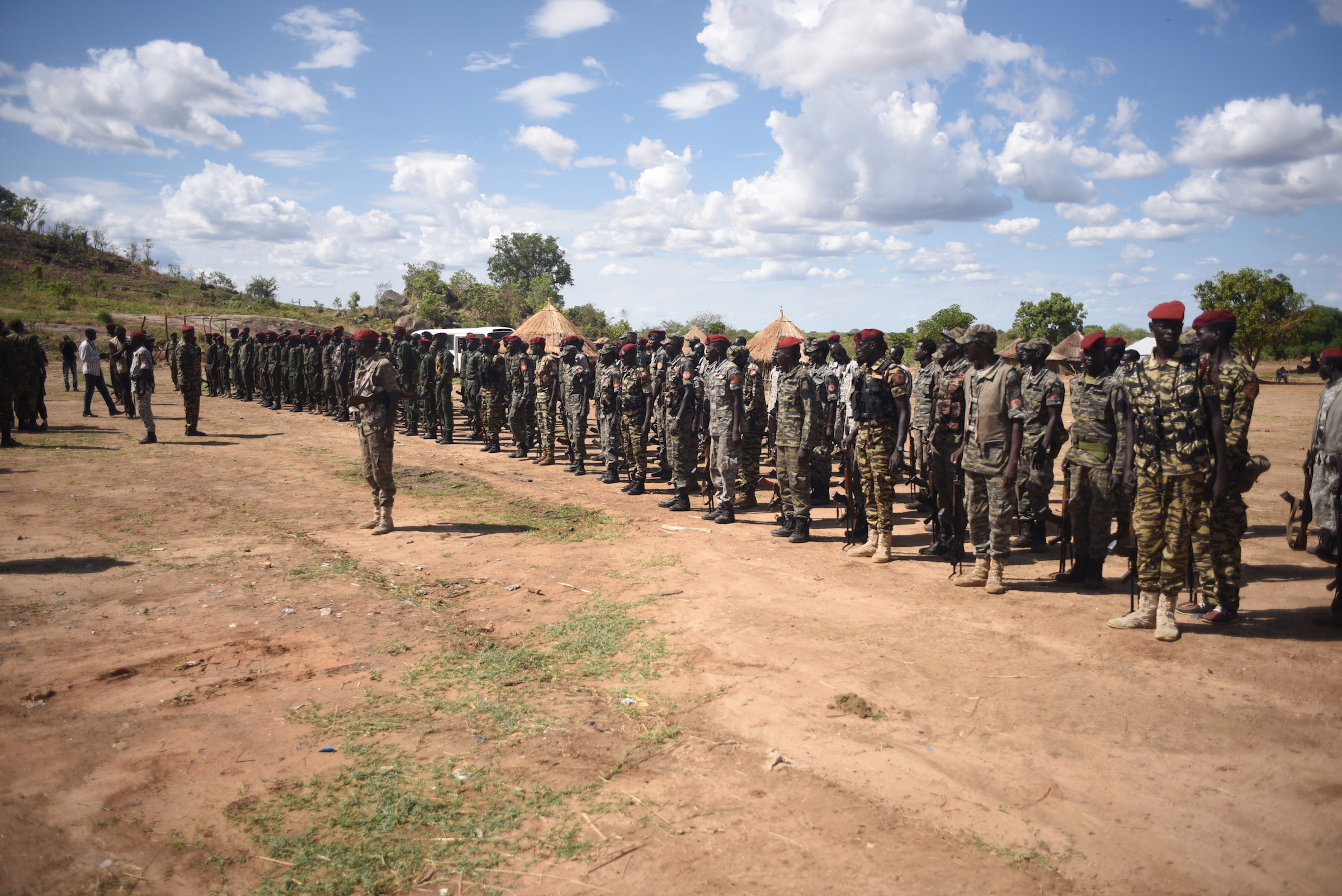 SPLA soldiers near Juba on 14 April 2016.